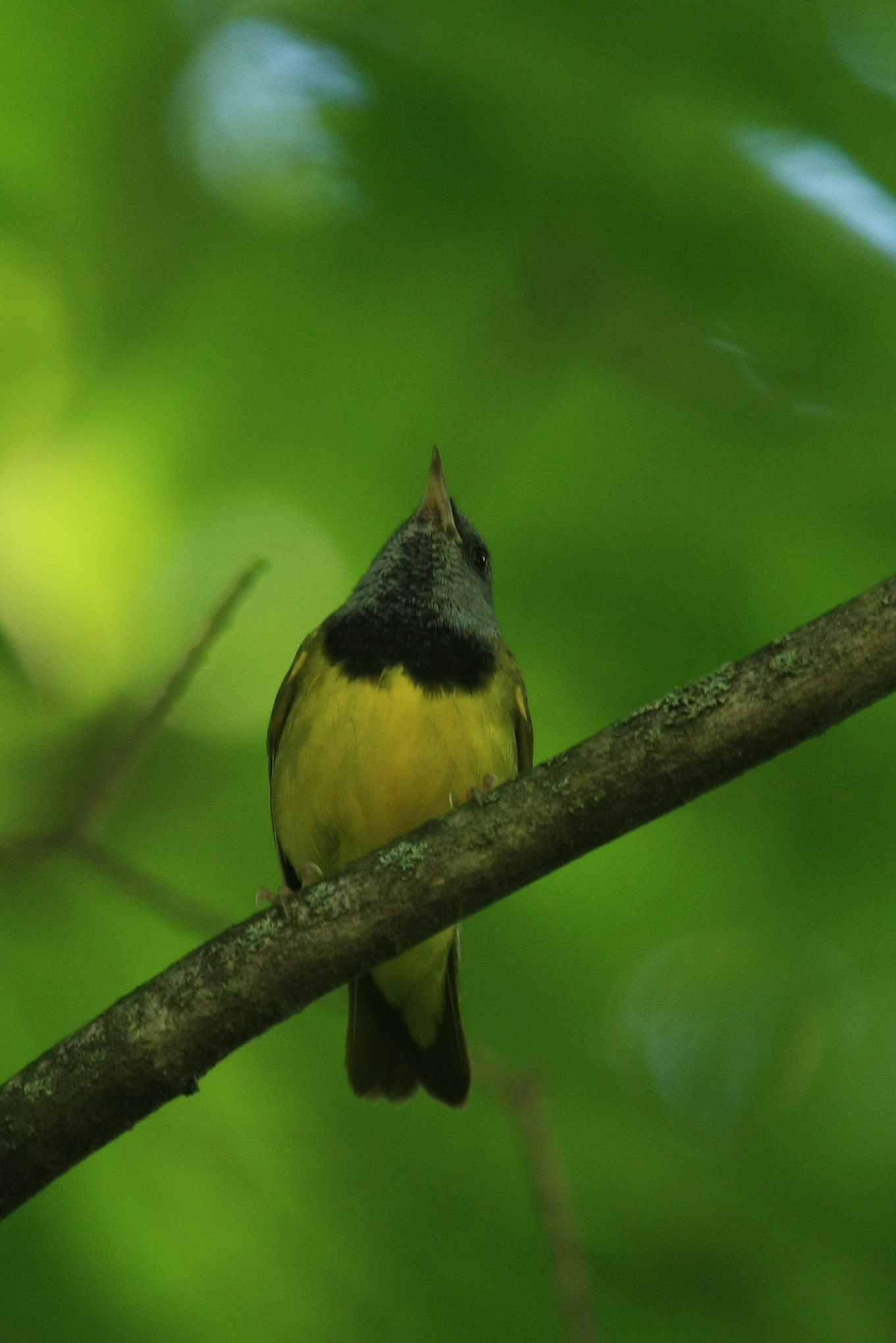 Mourning Warbler Geothlypis philadelphia, Summerhill - Filmore Rd Creek, Cayuga County, New York, USA